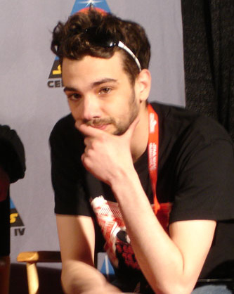 Jay Baruchel at the Star Wars Celebration IV In May 2007.